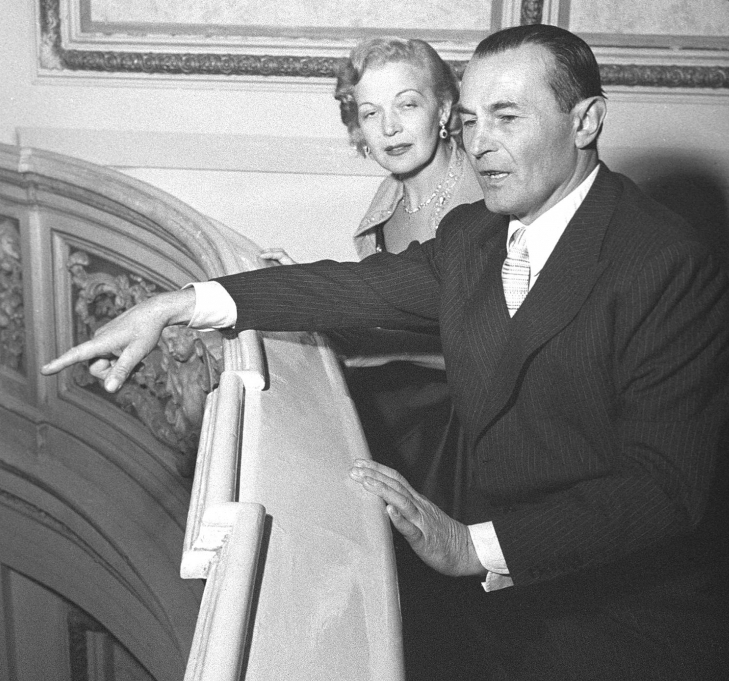 Marta Eggerth (1912–2013) and Jan Kiepura (1902–1966), a singer and movie actor couple.